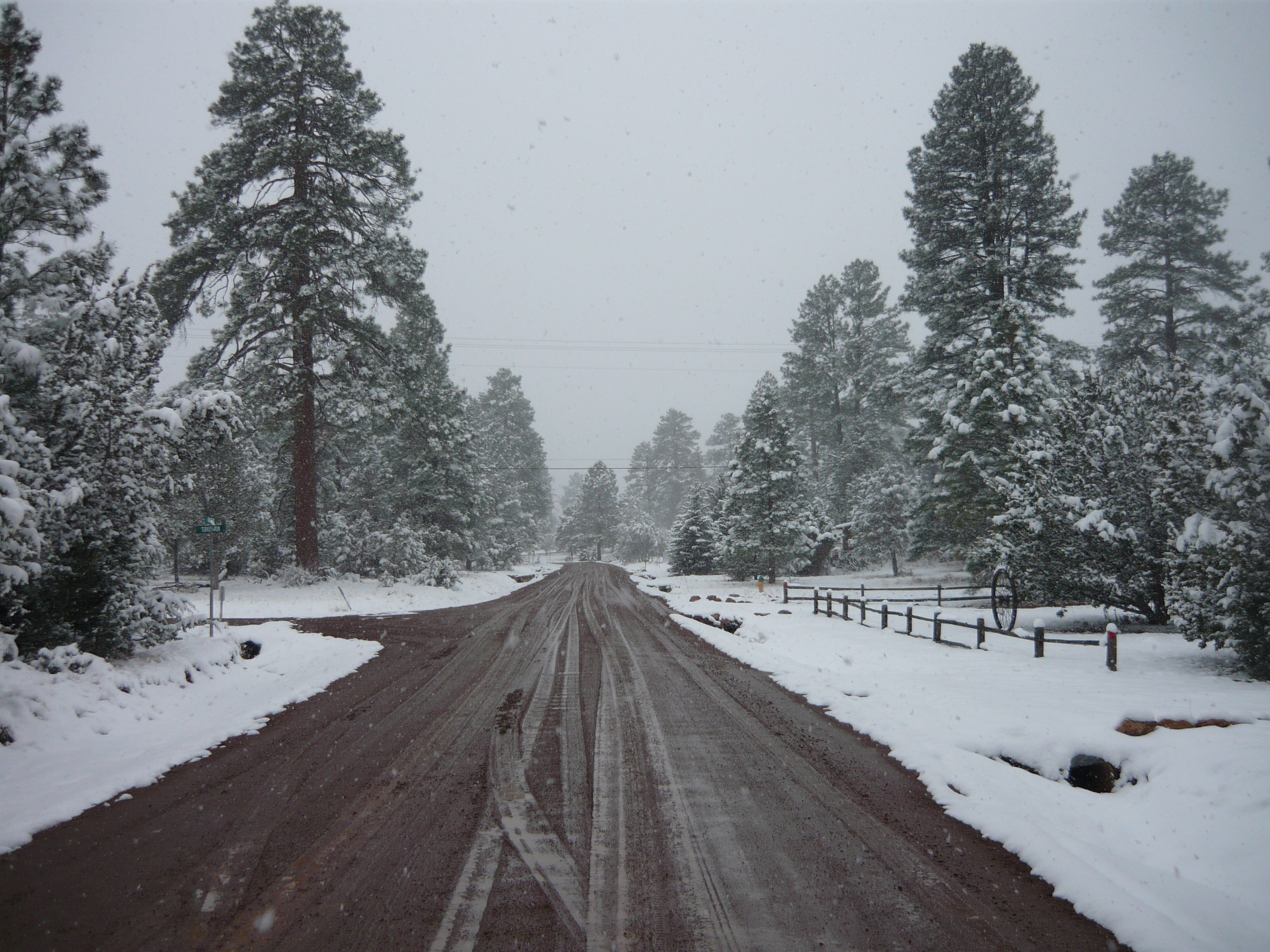 April Snow 4/9/2011